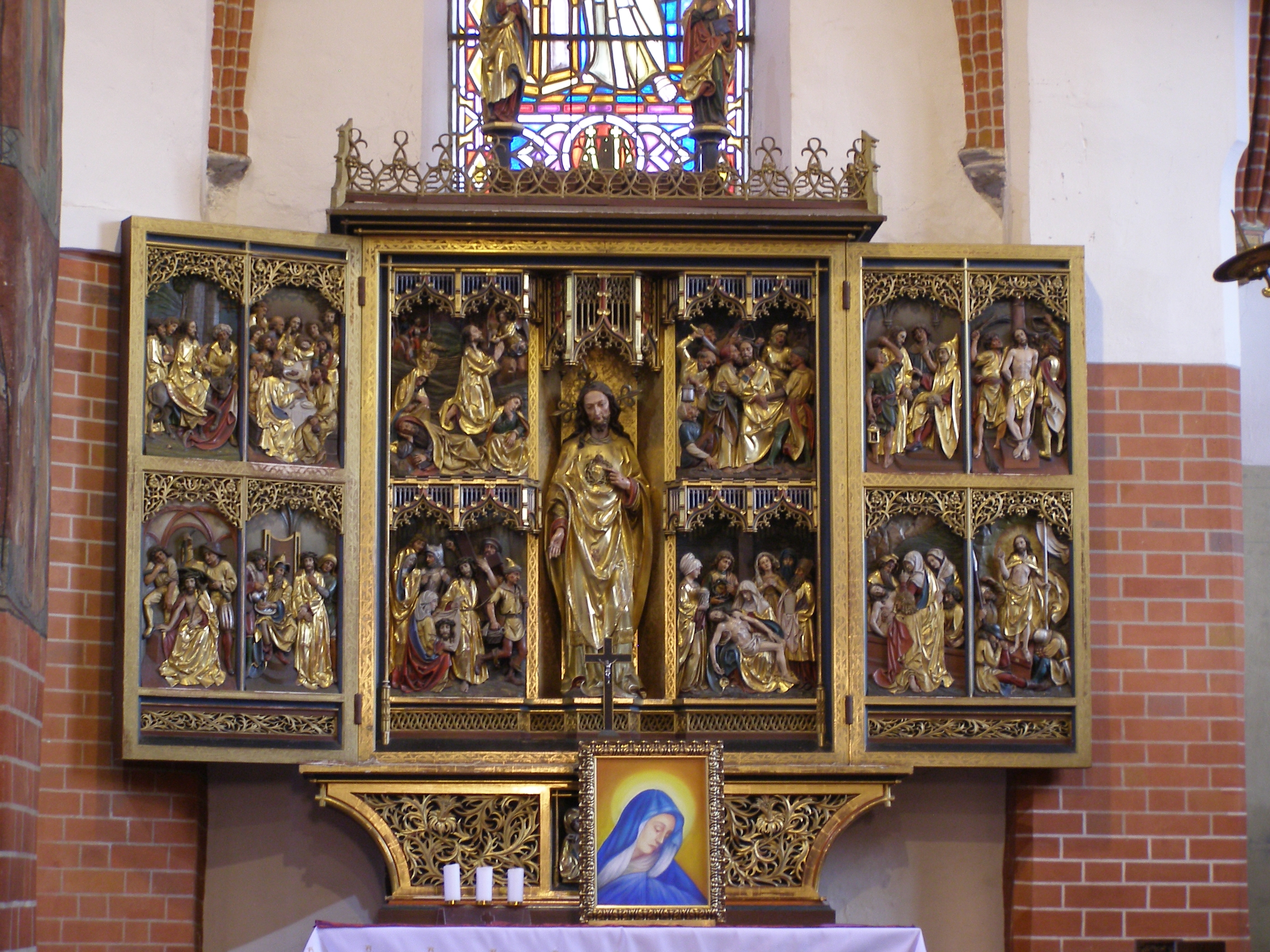 Orneta - triptych in a side altar of the St. John's church